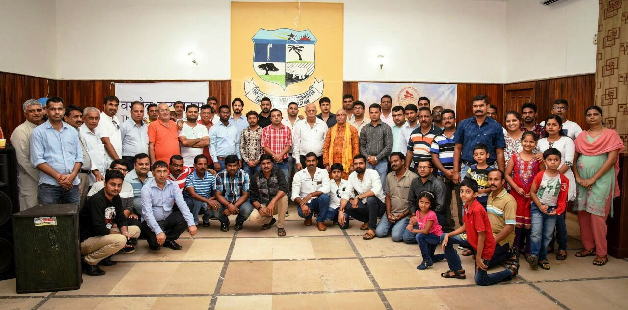 HSS Liberia, Starter 14th October 2017